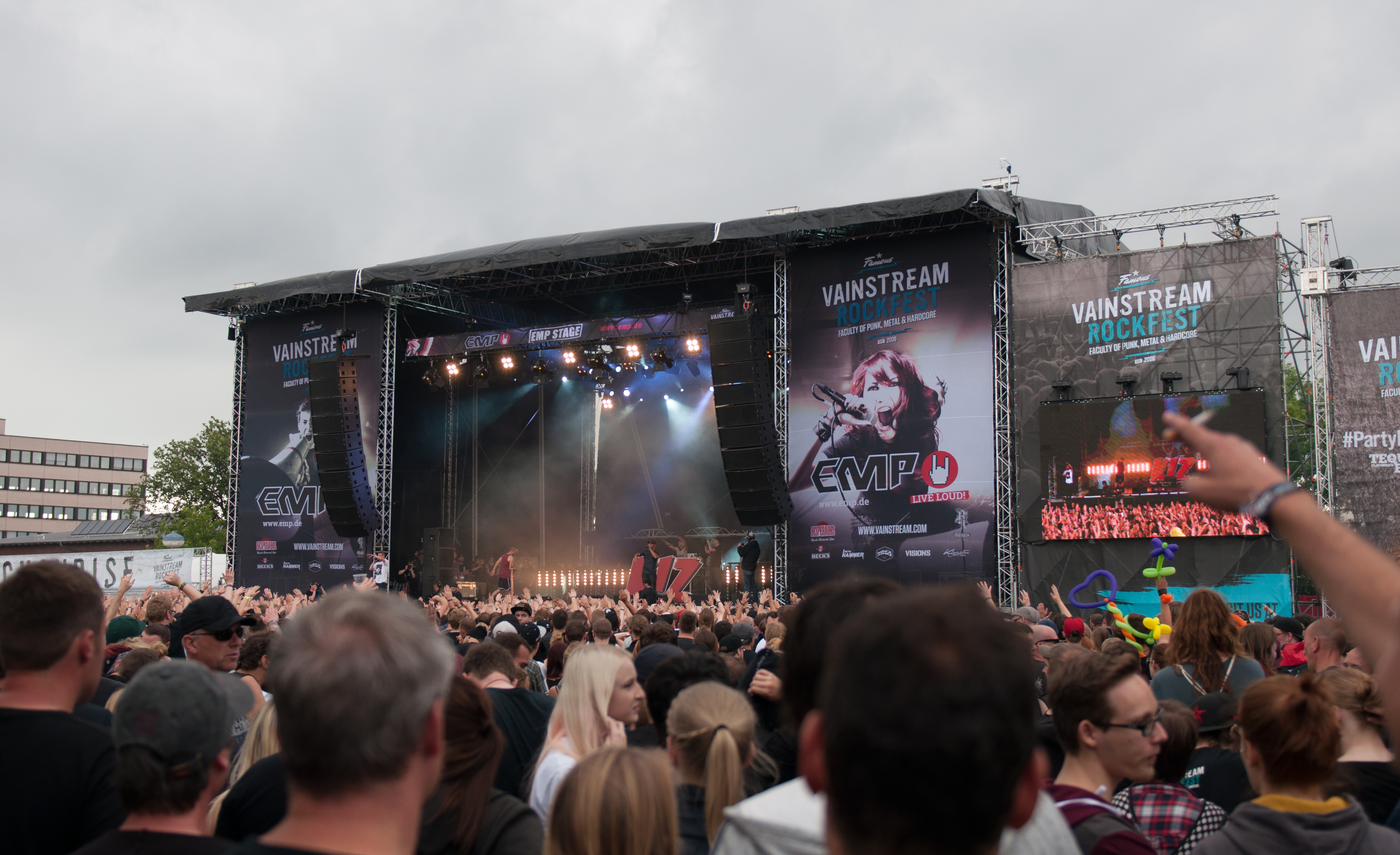 EMP stage at Vainstream Rockfest 2014, performing artists are K.I.Z.